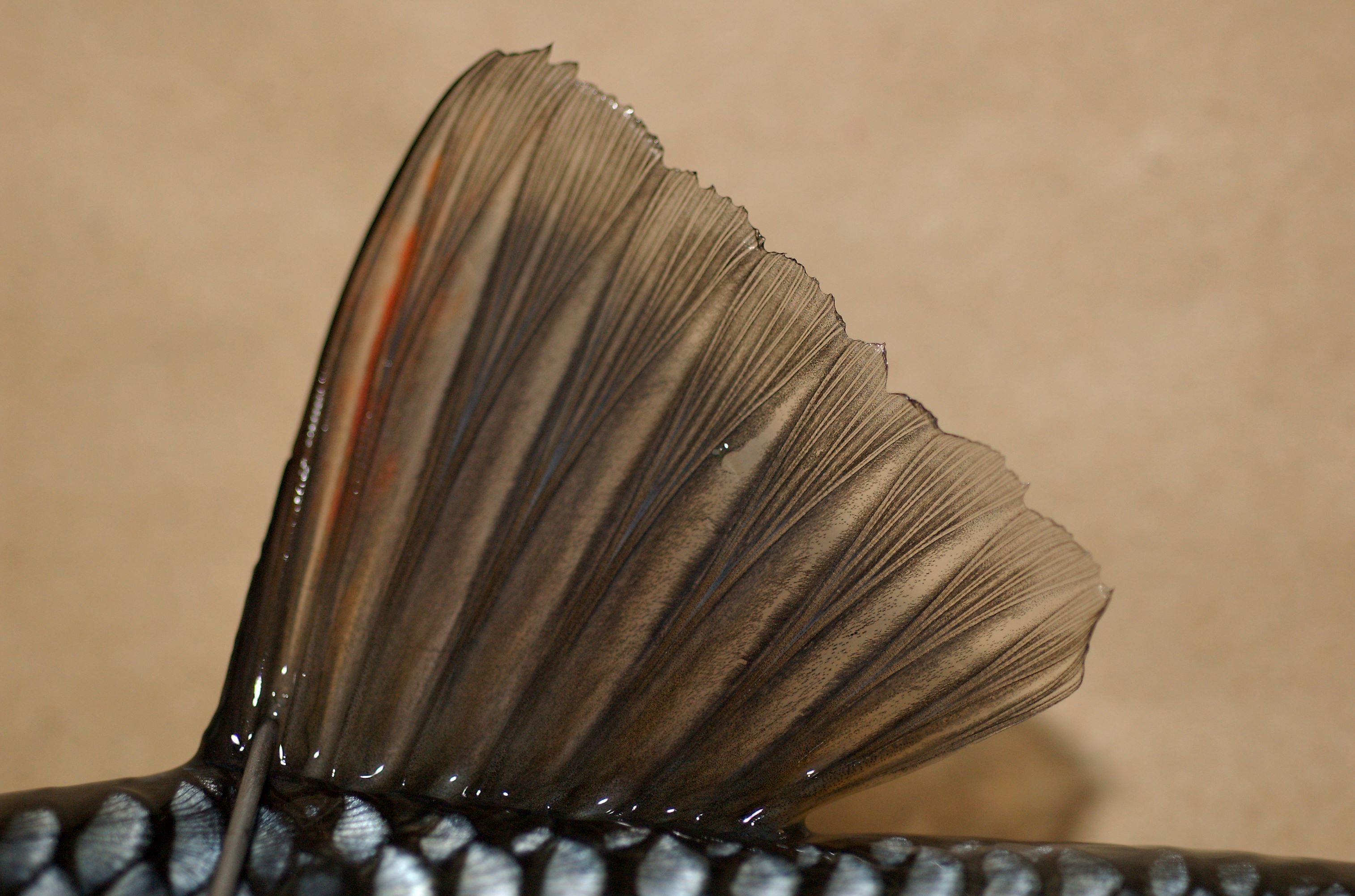 dorsal fin of a chub (Leuciscus cephalus)